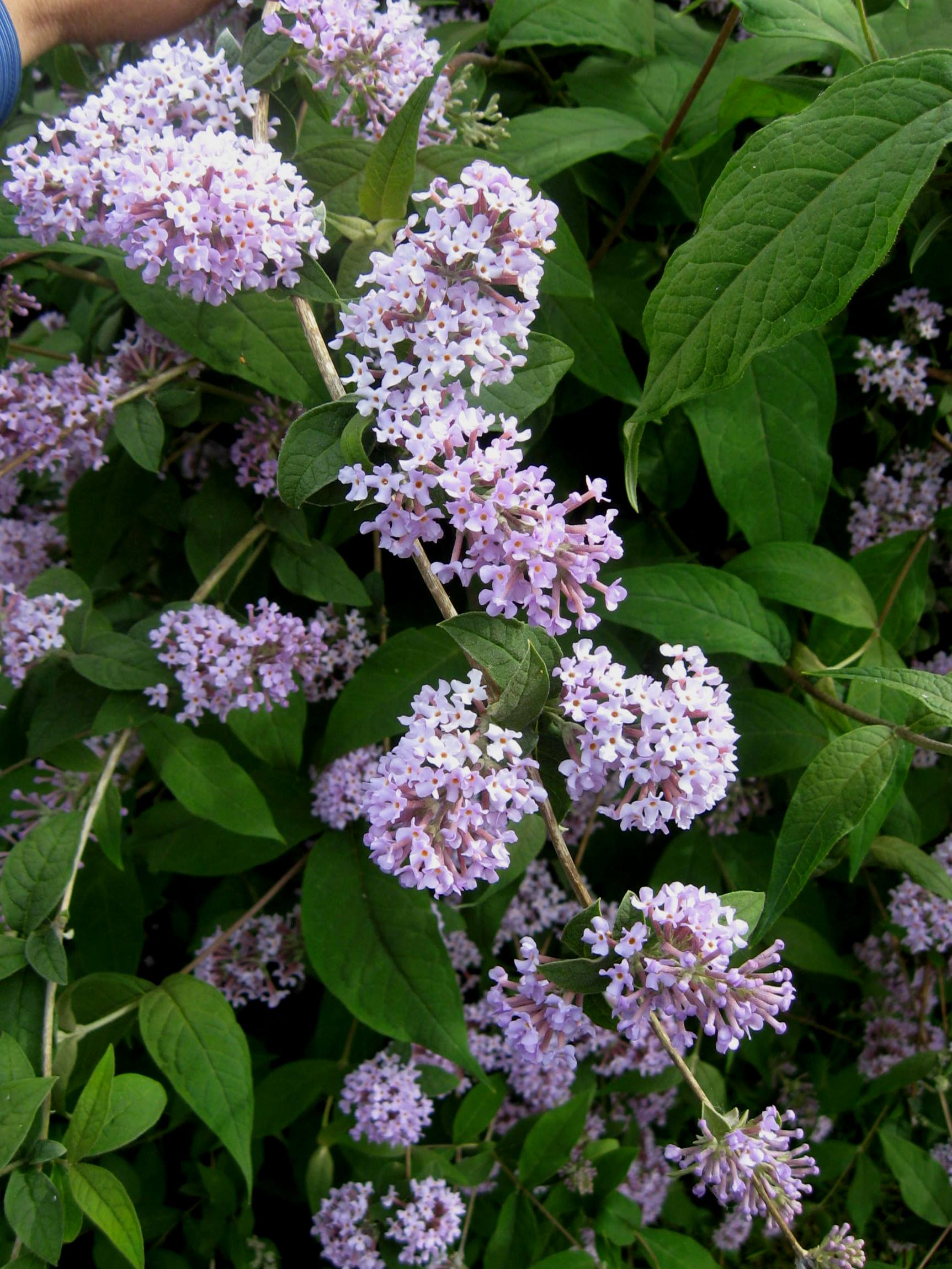 Close up photo of inflorescence of Buddleja delavayi.